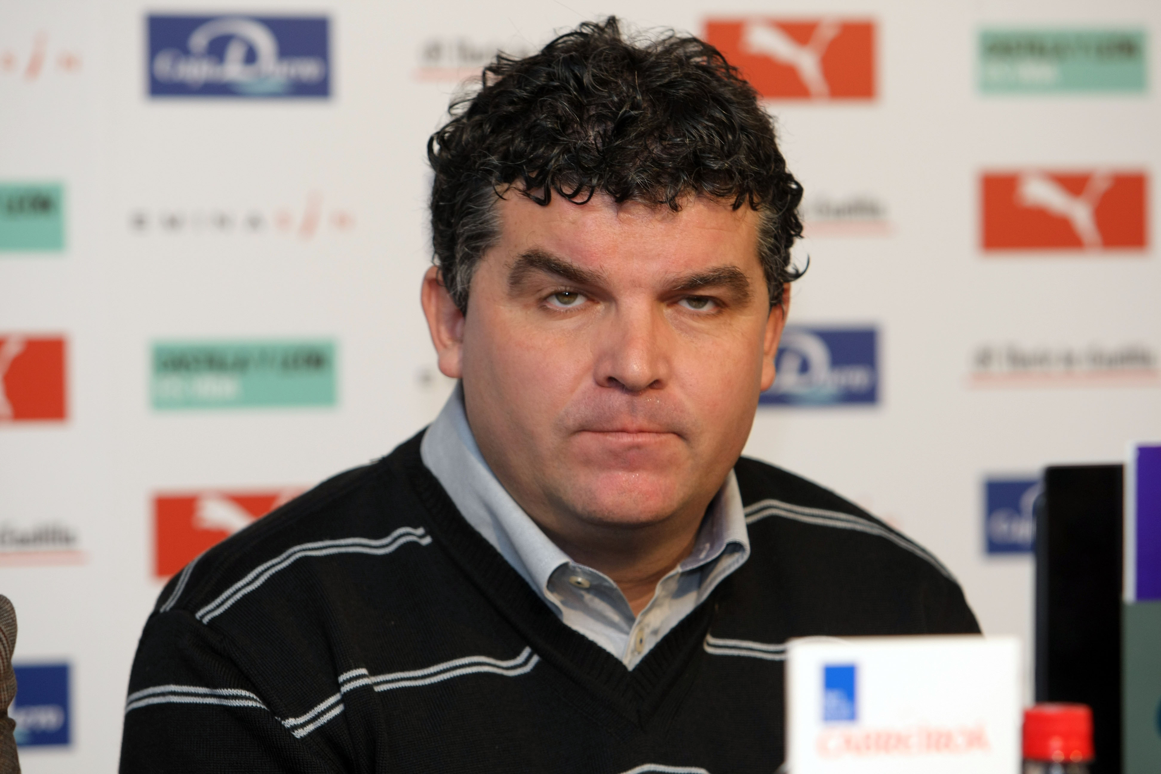 Onésimo Sánchez, retired Spanish footballer and coach of Real Valladolid